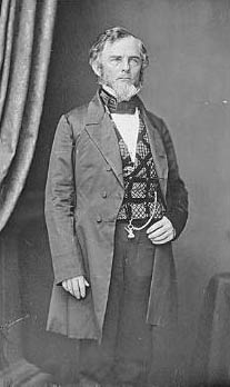 Gideon Johnson Pillow (1806–1878)